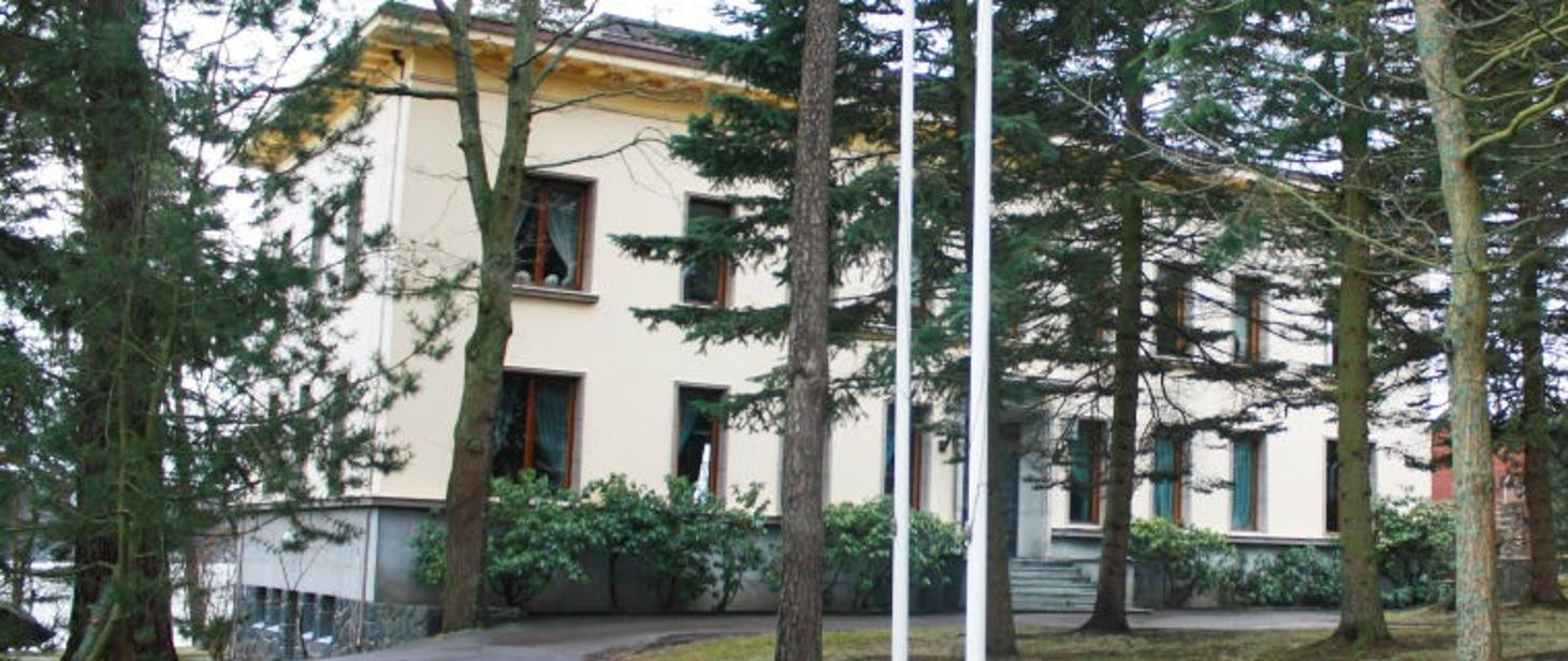 Embassy of Poland, Helsinki